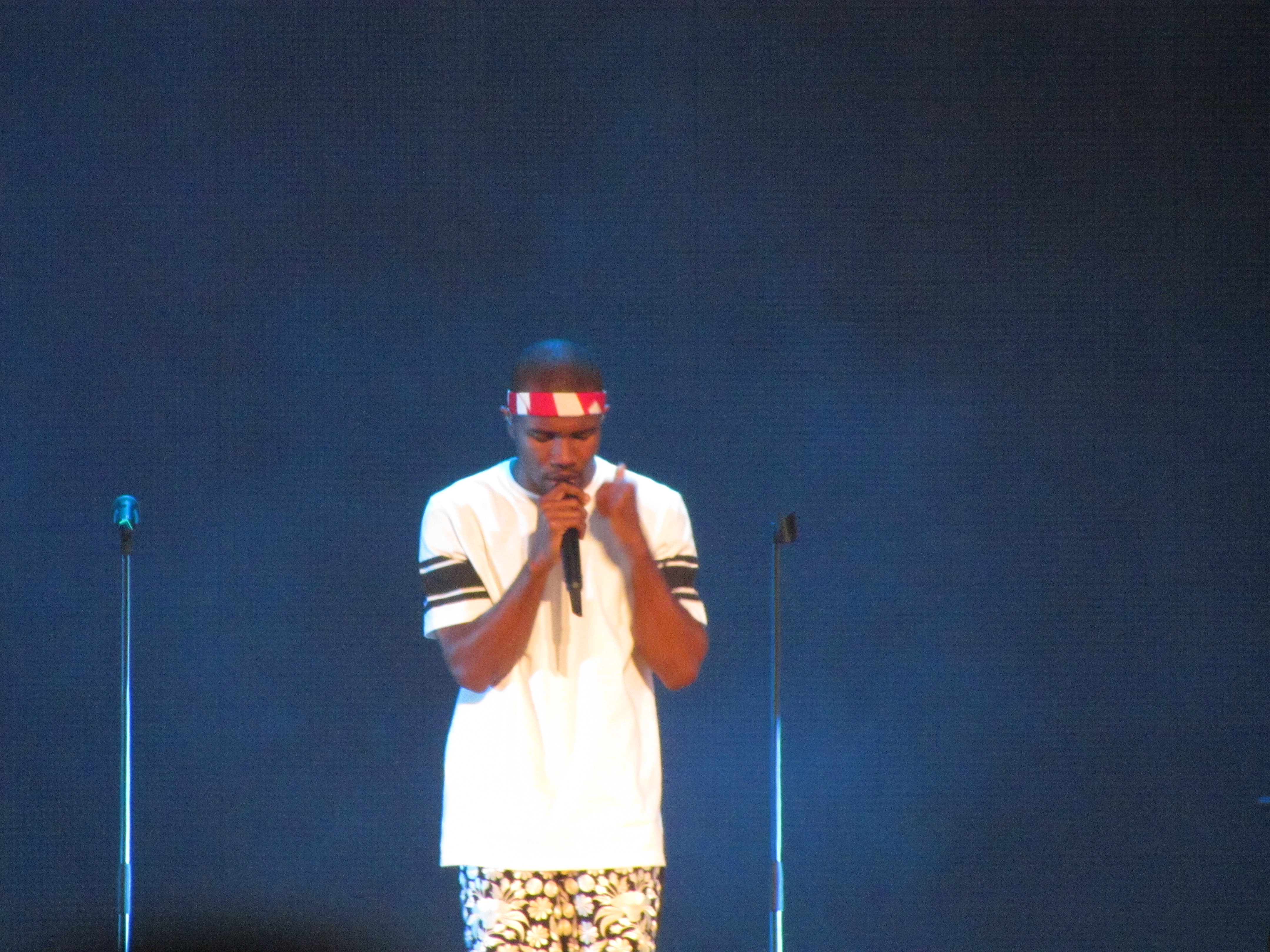 Frank Ocean 2013